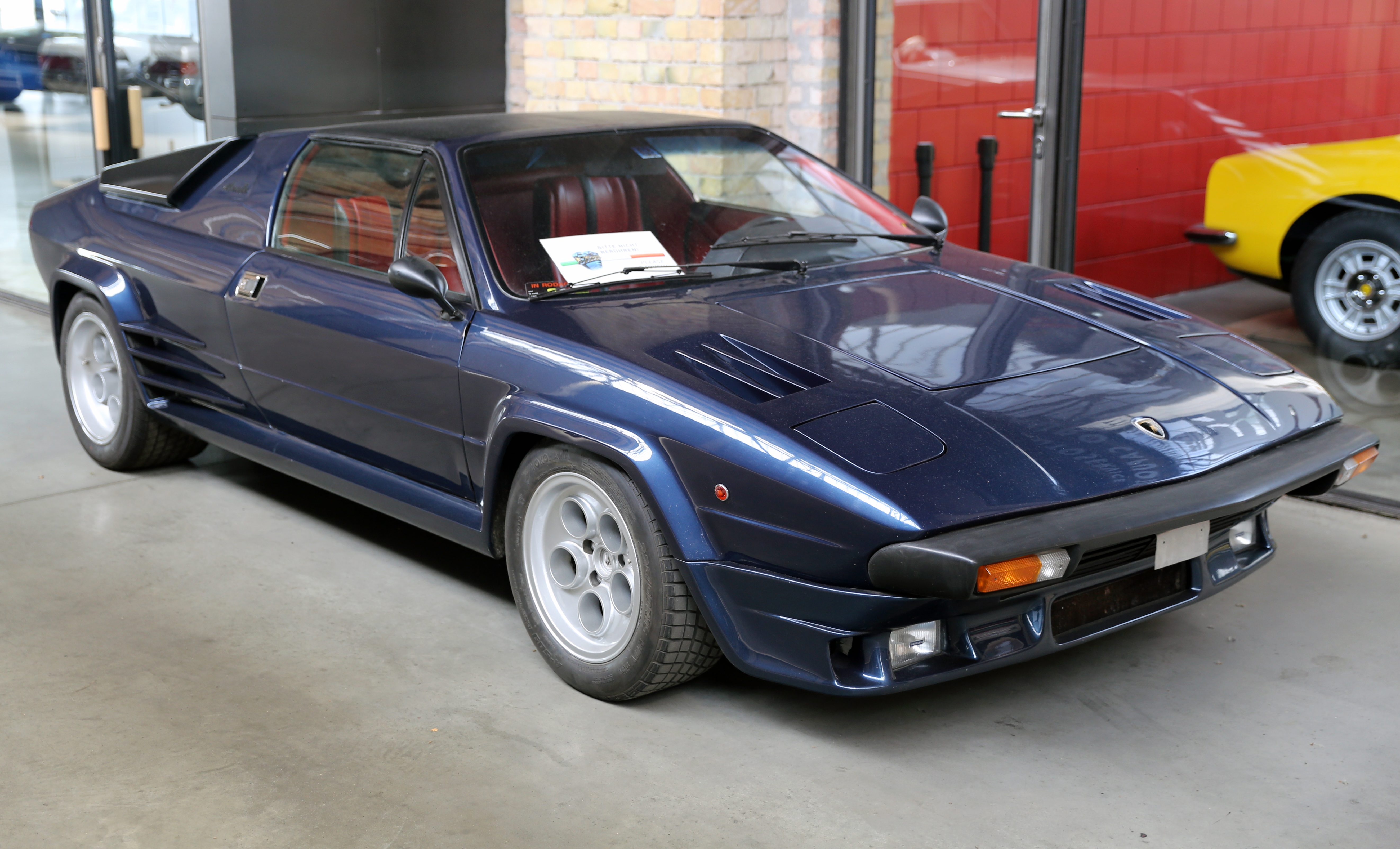 Another photo of the Lamborghini (Urraco) Silhouette 3000 at Classic Remise Berlin. Never ever thought I'd see one of these rare beasts in real life.